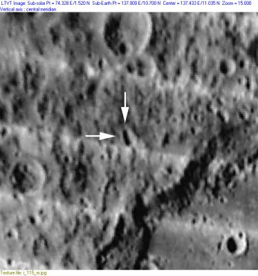 LO-I-115 M Rutherford is the small crater identified by the arrows in this low resolution scan from the LPI. The large structure in the lower right is the northwest part of the Mendeleev basin.